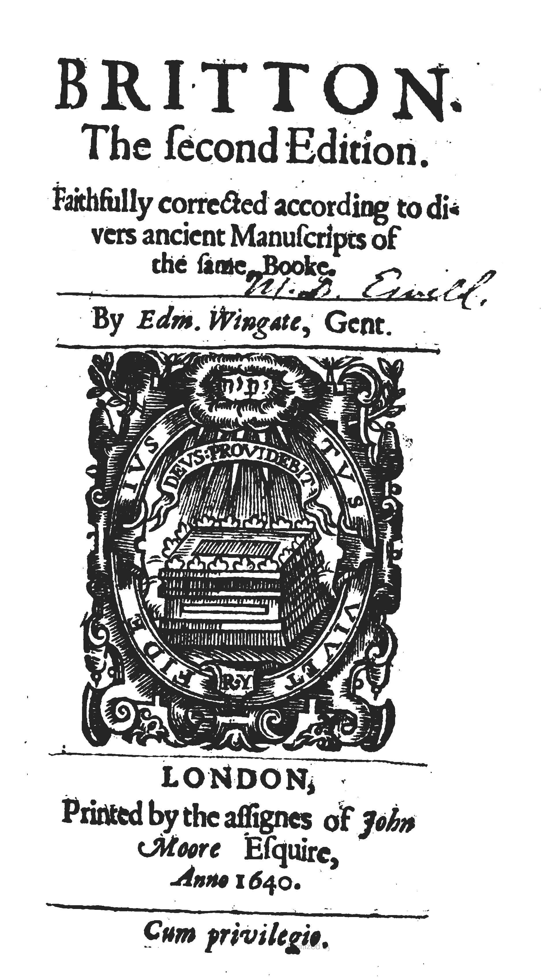 Title page of (1640) Britton. The second Edition. Faithfully corrected according to divers ancient Manuscripts of the same Booke. By Edm. Wingate, Gent. (2nd ed.), London: Printed by the assignes of John Moore, Esquire [Miles Fletcher, John Haviland and Robert Young] OCLC: 79739905.